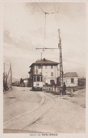 Gaglianico, tramway stop